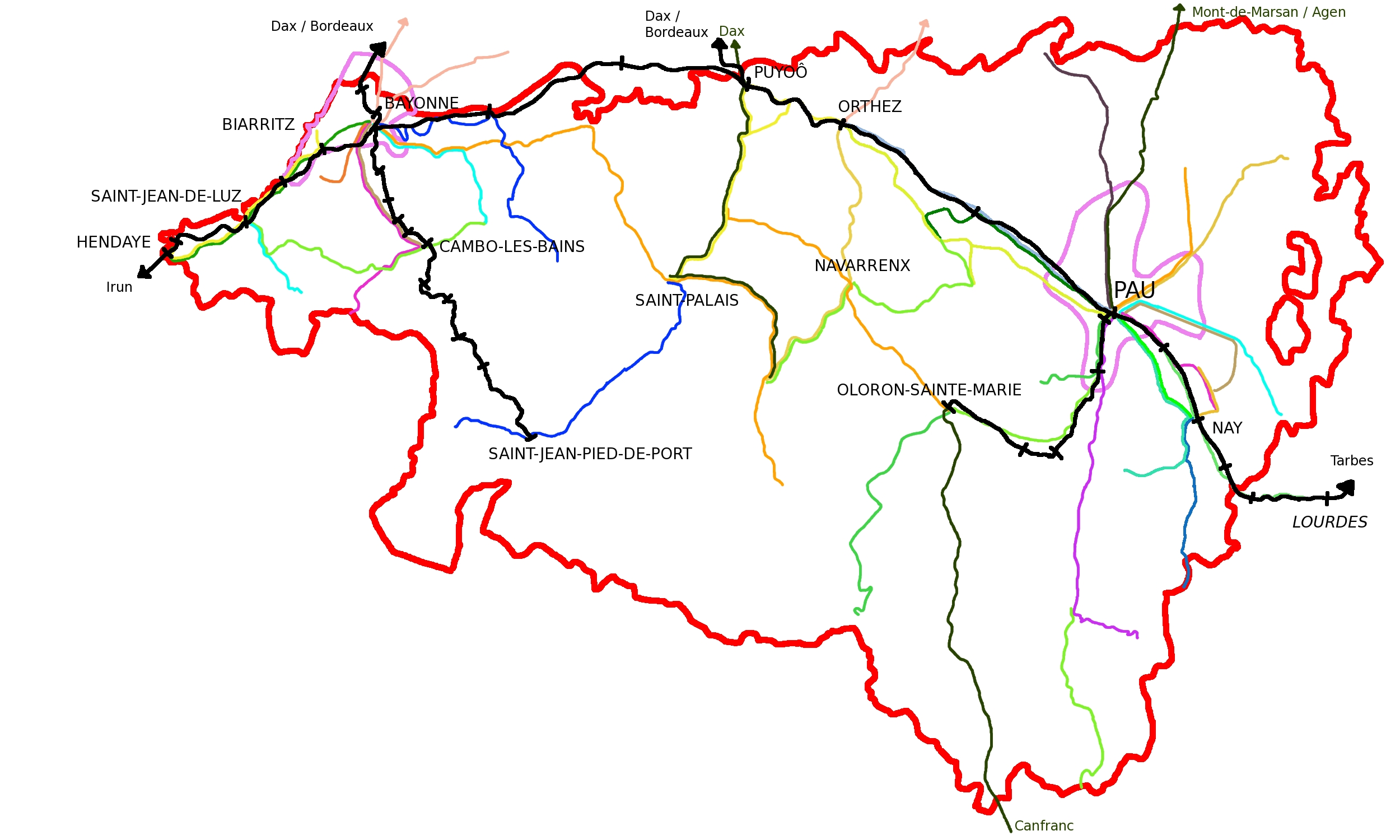 Map of bus and trains in Pyrénées-Atlantiques